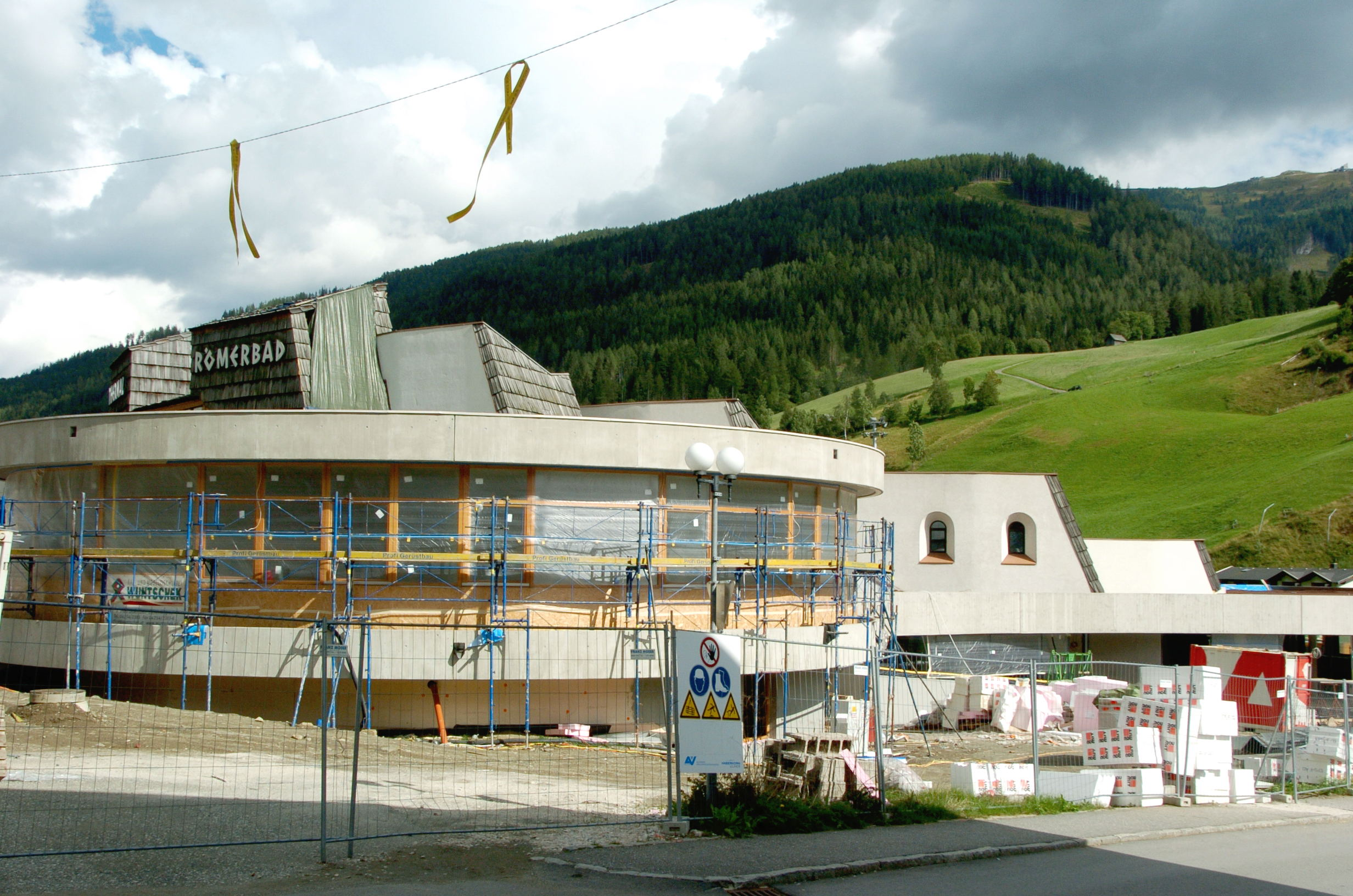 Complete reconstruction 2007 of the “Roemerbad” (“Roman Bath”) in Bad Kleinkirchheim in the community Bad Kleinkirchheim, district Spittal on the Drau, Carinthia, Austria